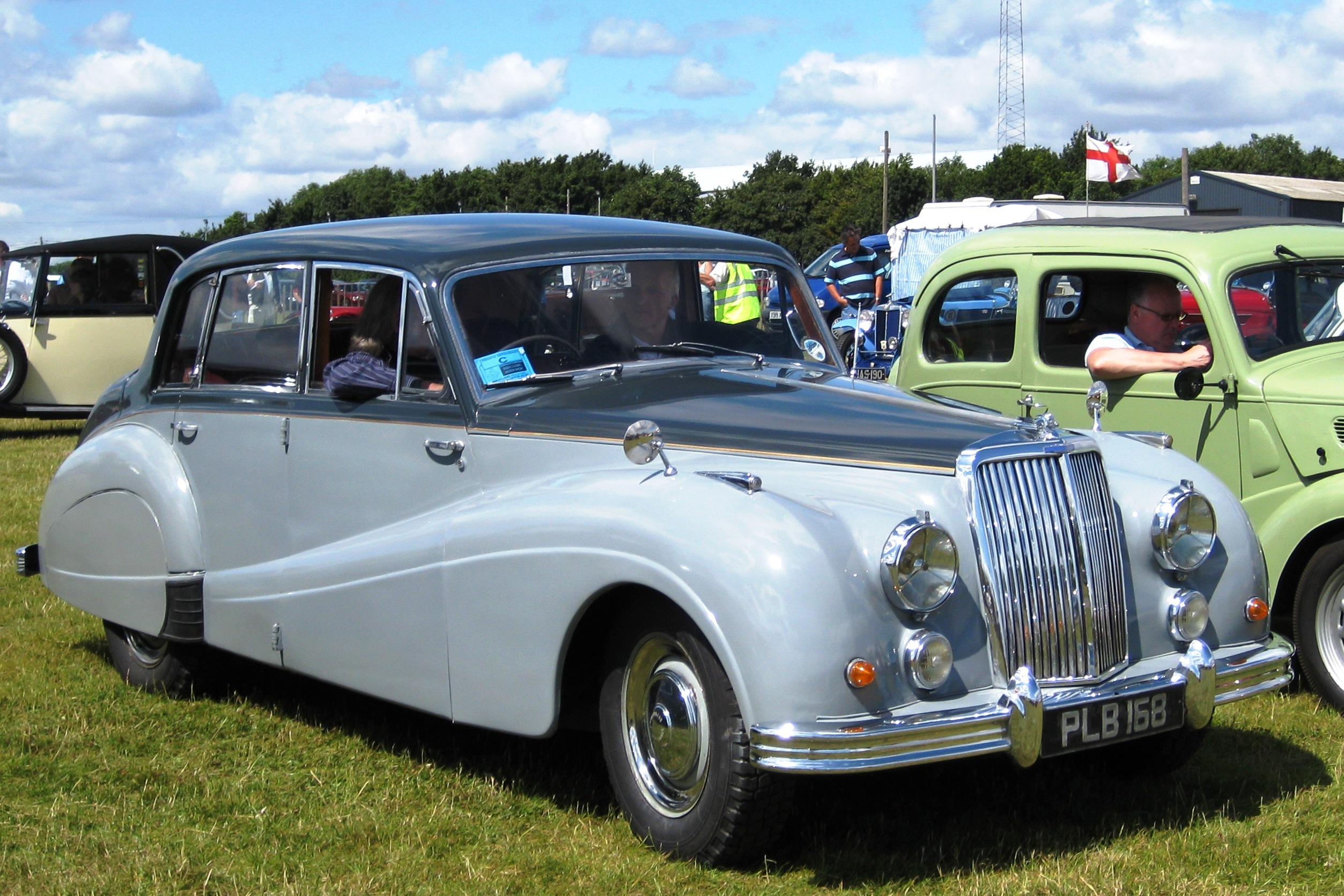 Armstrong Siddeley Sapphire 346 Saloon, 1954 UK Tax office data: Date of first registration September 1954 Year of manufacture 1954 Cylinder capacity 3435 cc